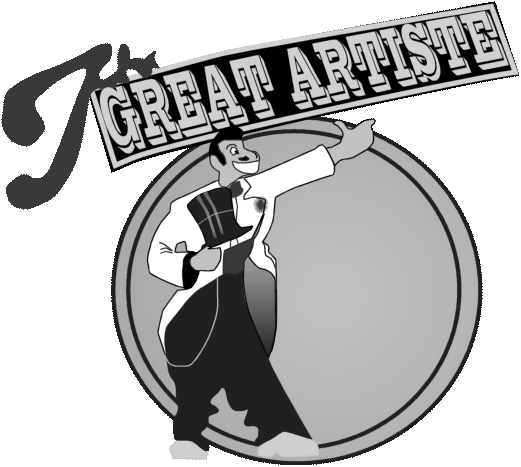 Silverplate B-29 nose art of The Great Artiste I drew, not sure the color version was accurate so I've used gray scale to simulate appearance in BW photo. Anynobody 07:25, 27 March 2007 (UTC)